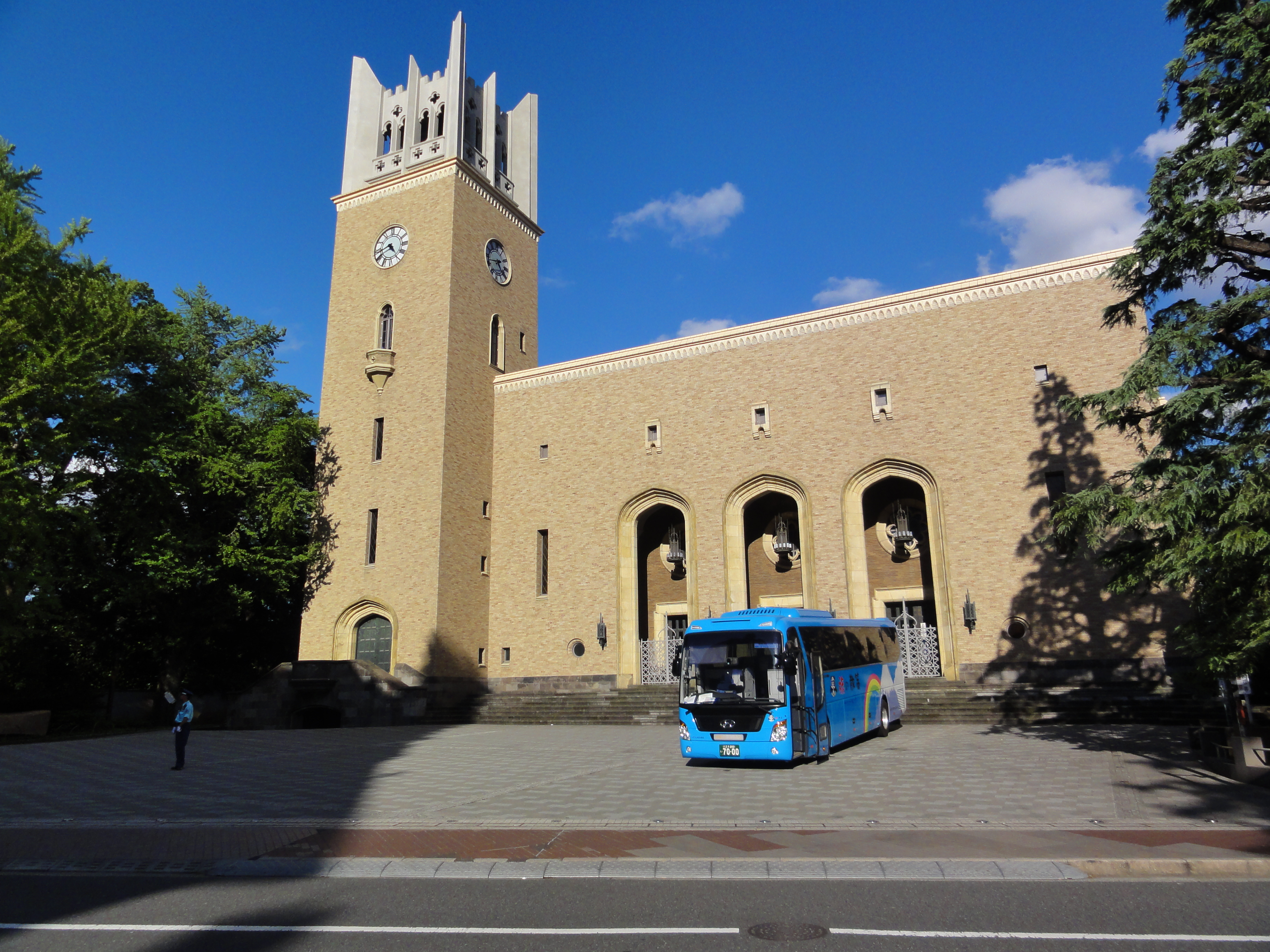 Waseda University